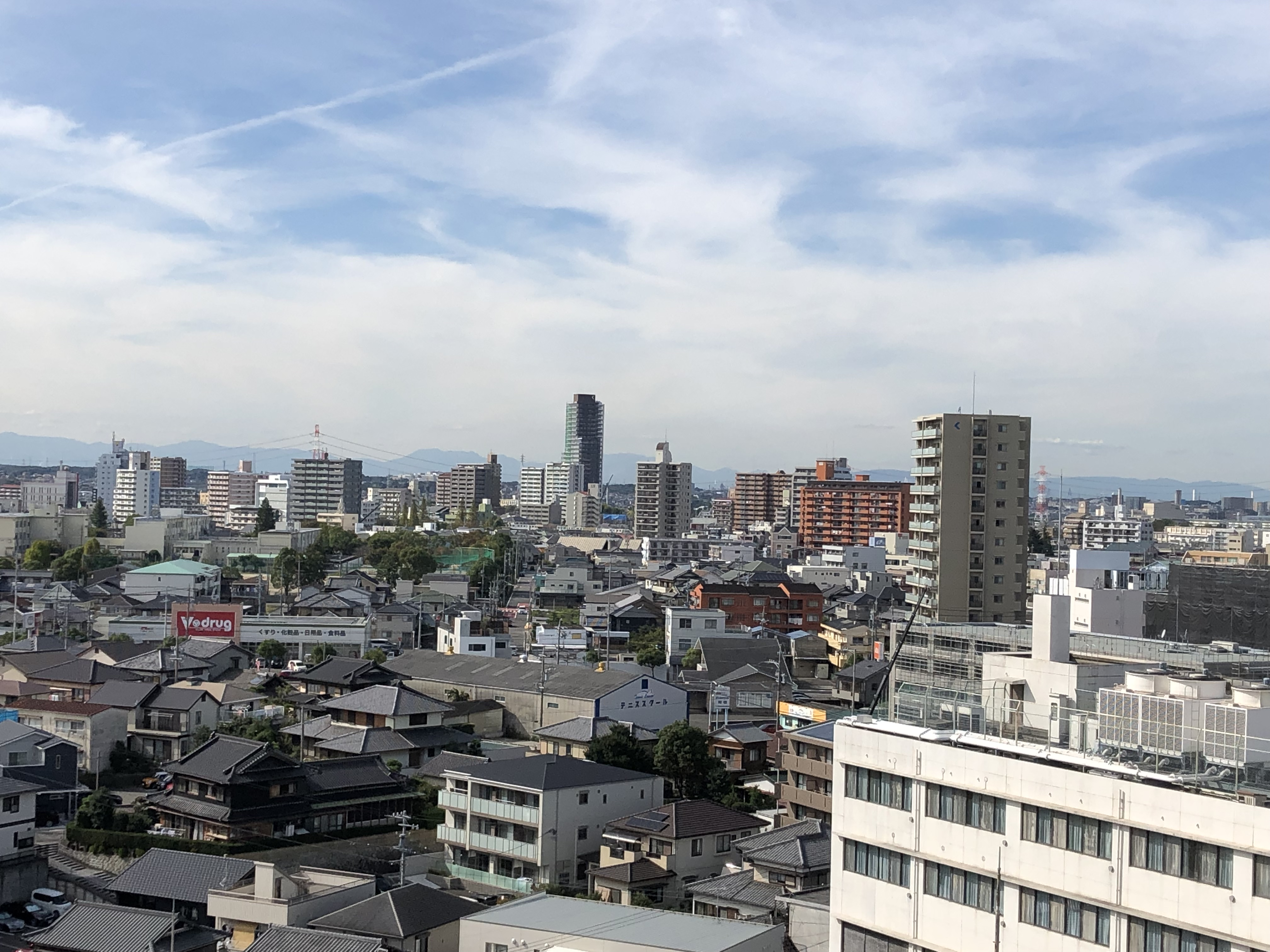 Kariyashi-station from Kariya-Toyota General Hospital